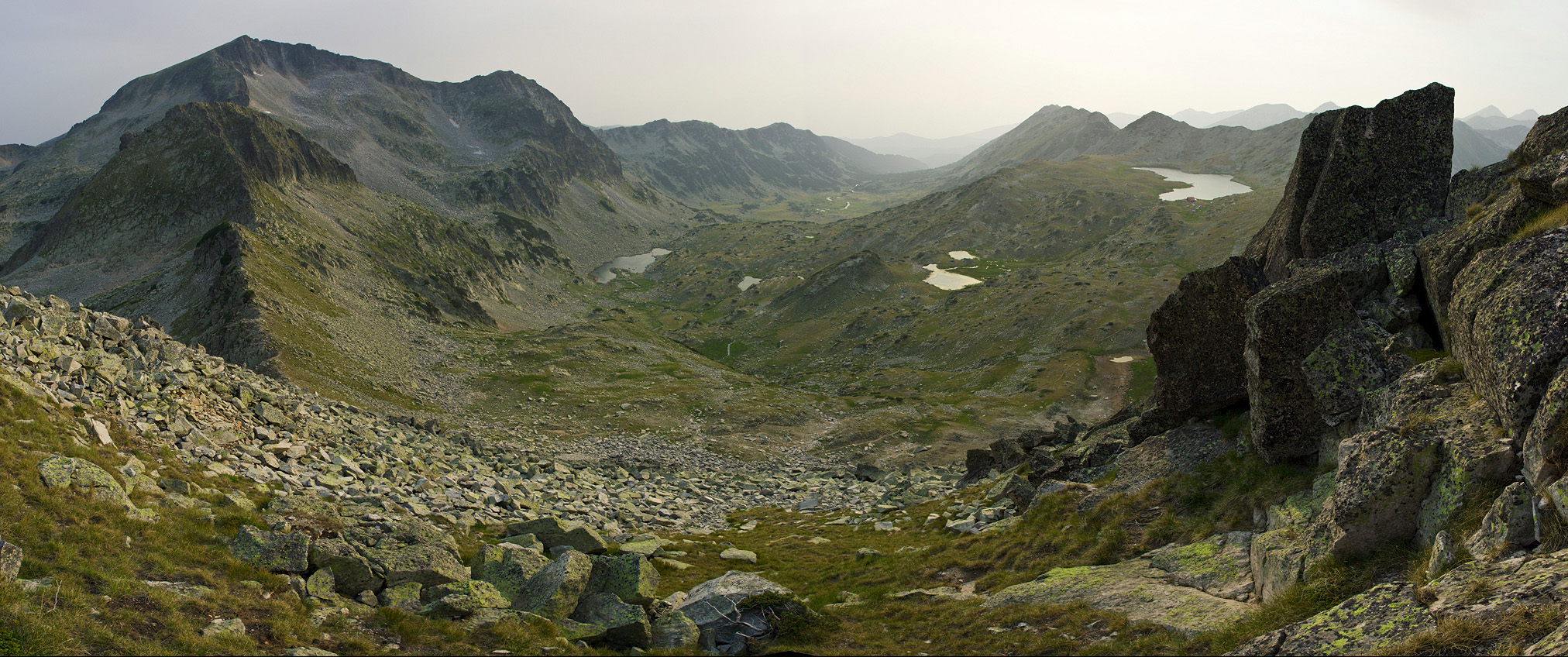 Lakes in the Belemeto cirque, Pirin mountain, Bulgaria